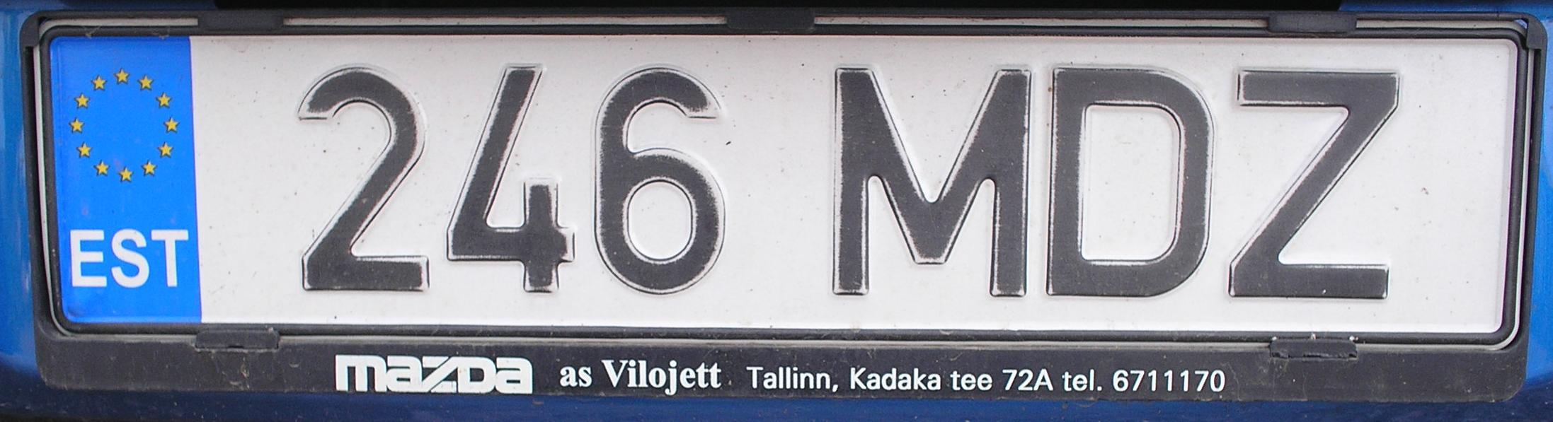 License plate from Estonia